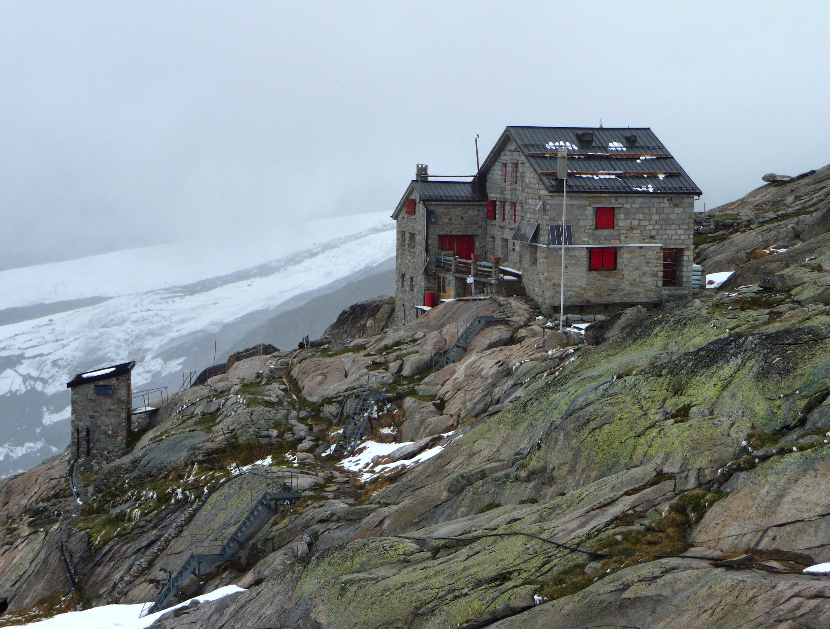 The old Monte Rosa Chalet (Valais, Switzerland).